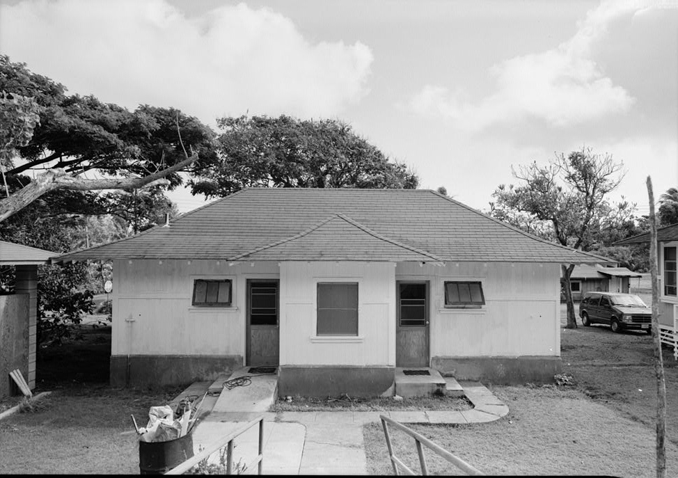 Fumigation Hall, Moloka'i Island, Kalaupapa, Kalawao, HI Other Title: Building No. 283 Kalaupapa Leprosy Settlement Kalaupapa National Historical Park SOUTH FRONT ELEVATION WITHOUT SCALE HABS HI,3-KALA,14-1 at , trimmed black edge